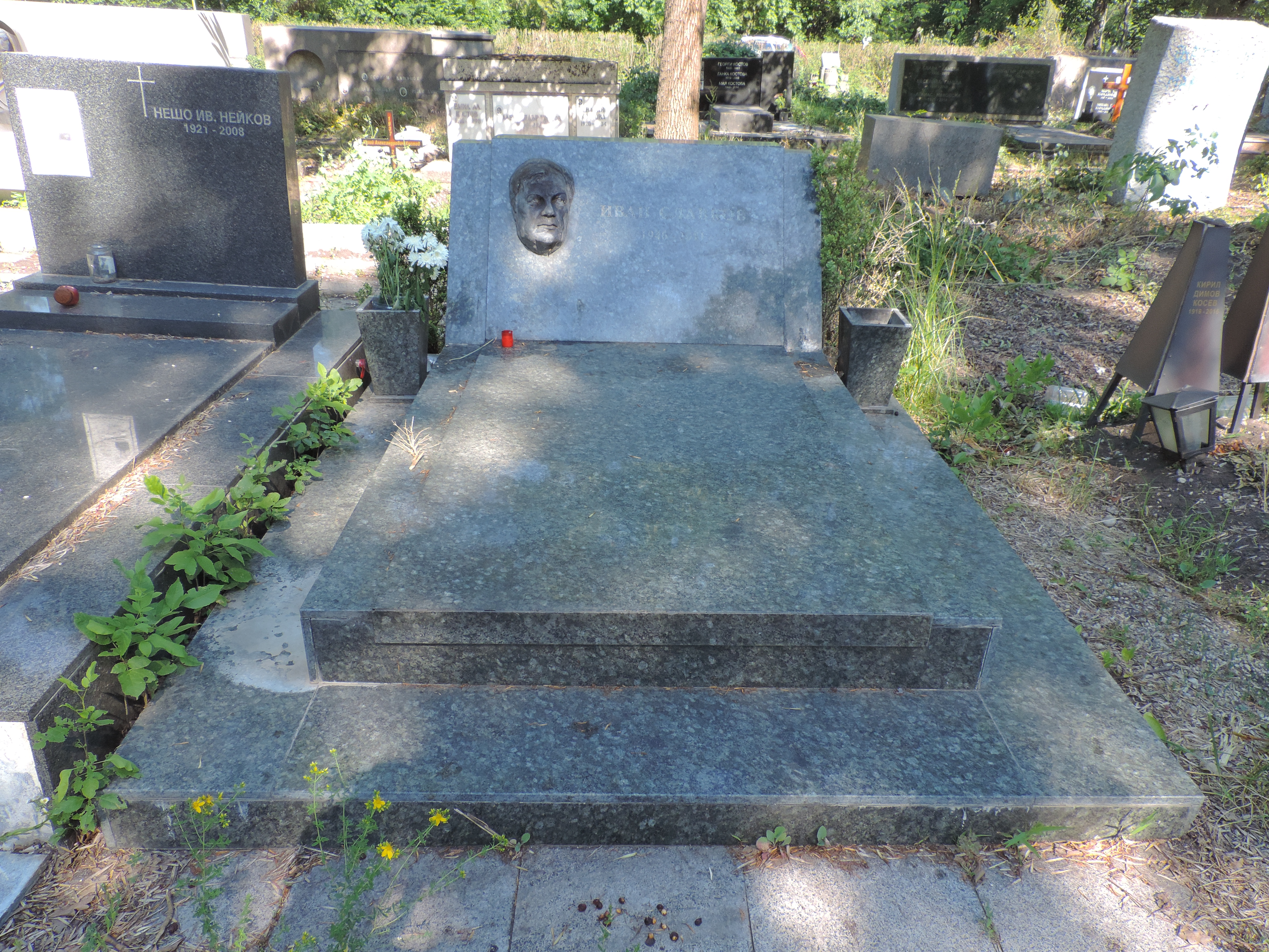 Central Sofia Cemetery